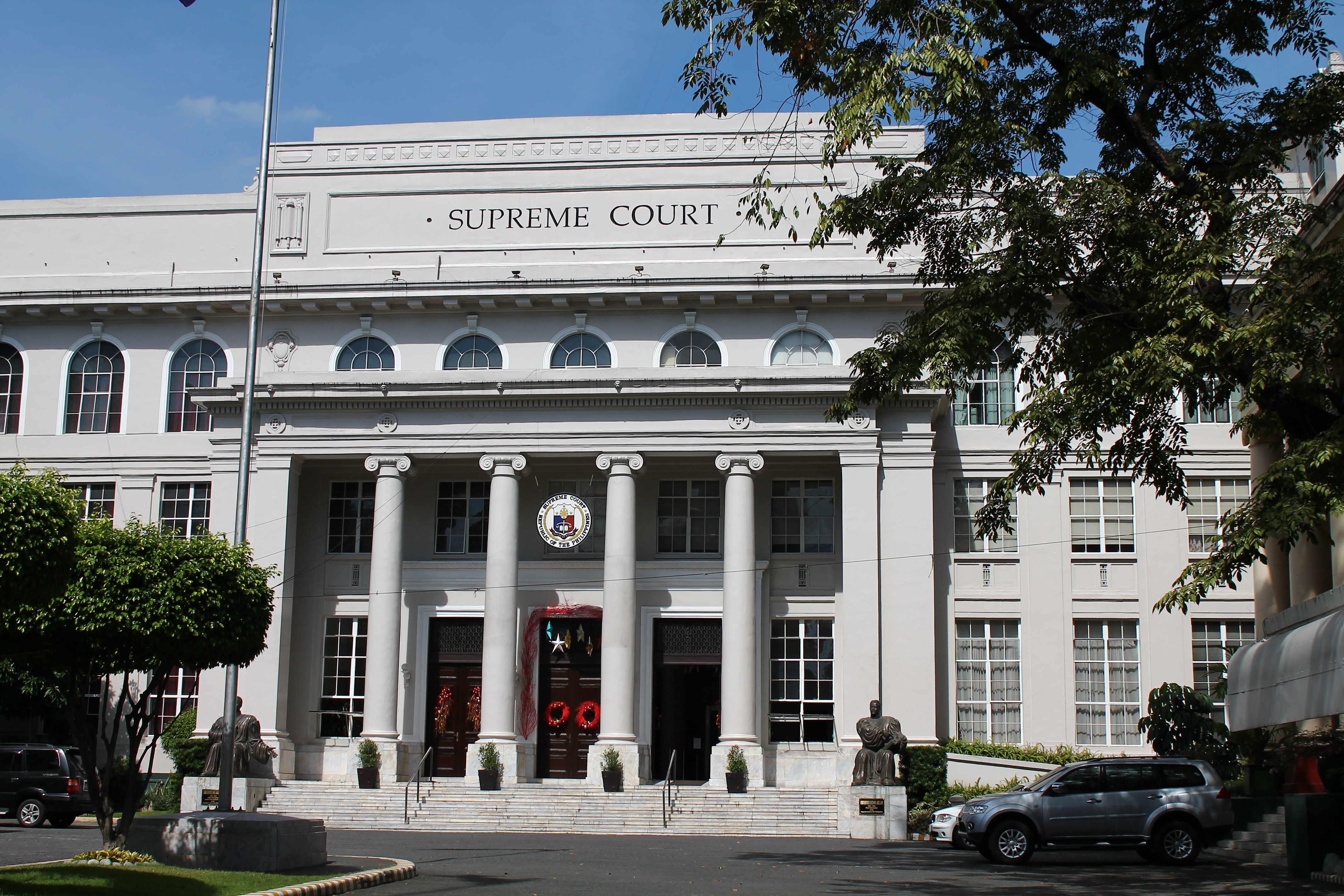 A branch of government in the Philippines